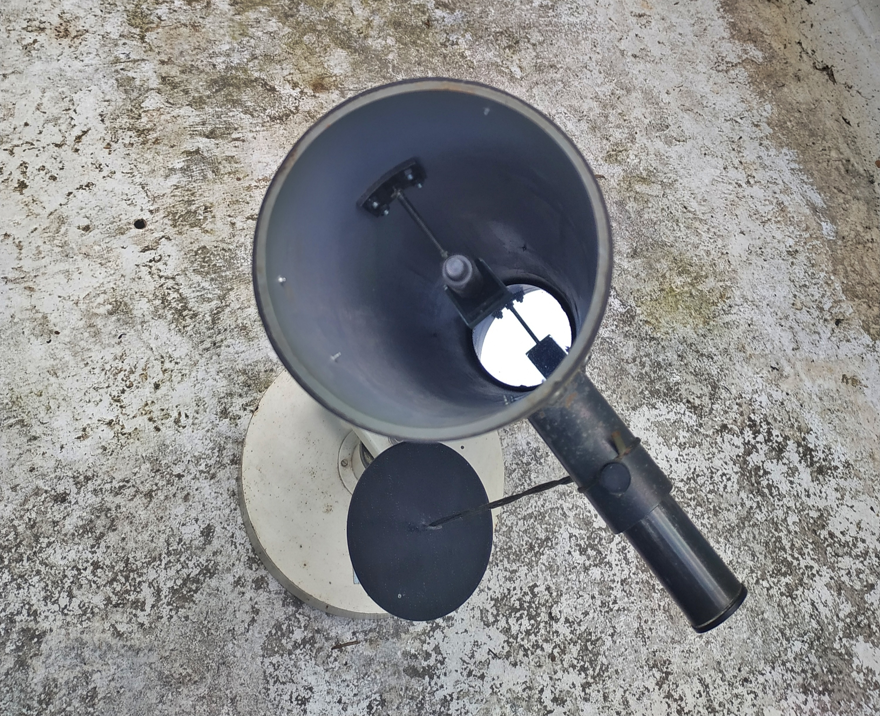 Reflecting Telescope Inside View